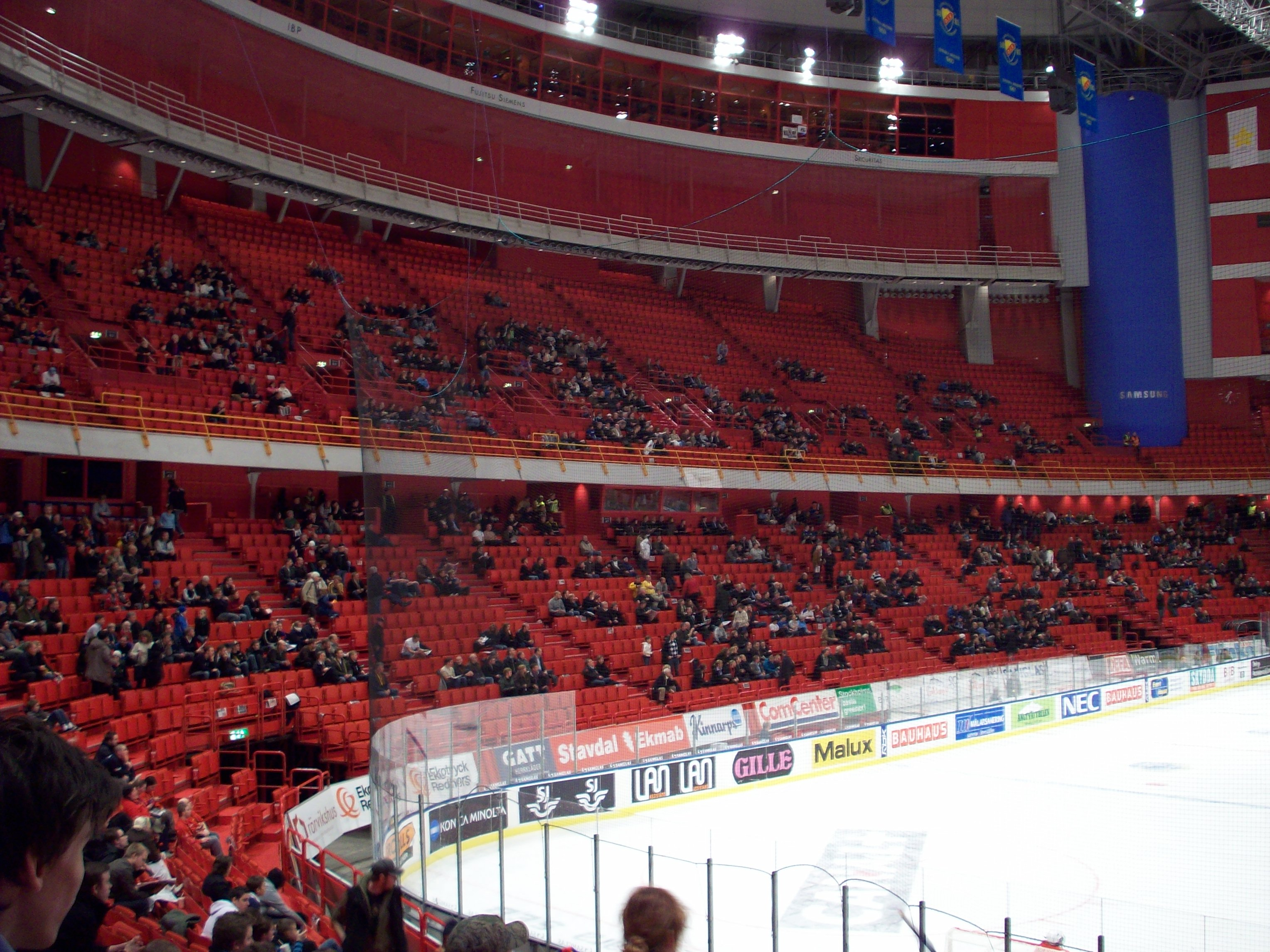 Interior of Stockholm Globe Arena during the Djurgårdens IF-Linköpings HC (3-4) Swedish Elite League game.